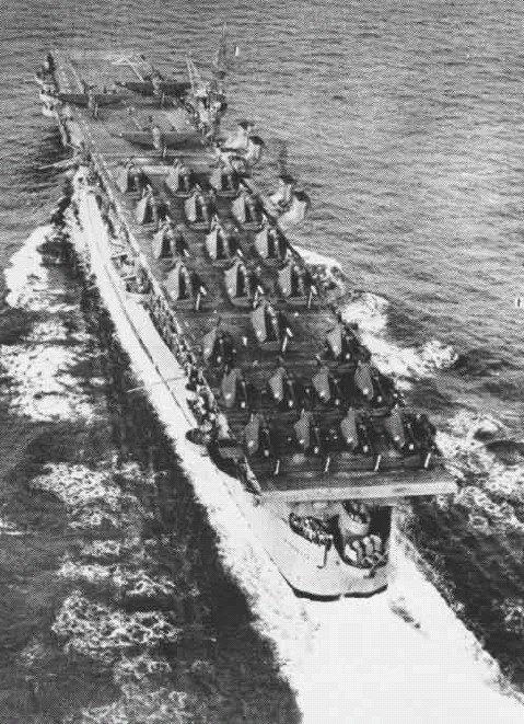 The French aircraft carrier La Fayette (R96) arriving in France on 11 September 1951, with her air group on deck. The air group consisted of 16 Grumman F6F-5 Hellcat, 4 F6F-5N night fighters, and 12 Grumman TBM-3E Avenger. The carrier had just been transferred from the U.S. Navy to France.